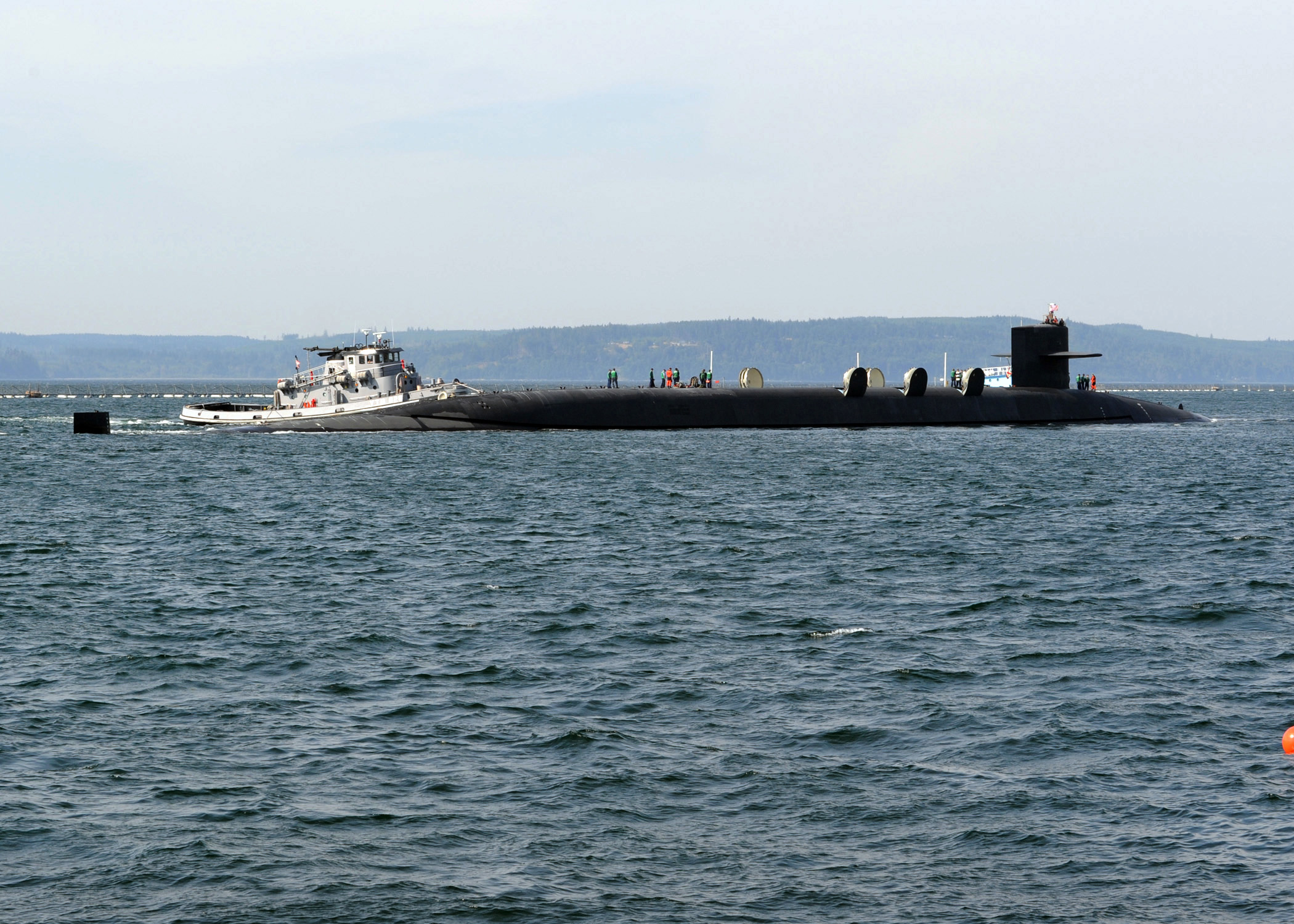 KITSAP, Wash. (July 31, 2009) The Ohio-class ballistic missile submarine USS Alabama (SSBN 731) cycles it's missile hatches during the ships return from a deterrent patrol while the tugs Catahecassa and Mitchell Herbert guide the submarine to be moored at the Delta Pier on board Naval Base Kitsap. (U.S. Navy photo by Ray Narimatsu/Released)